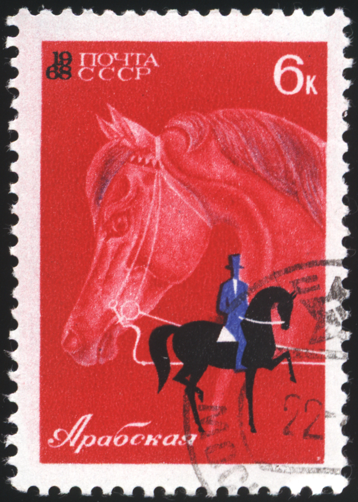 Stamp of the Soviet Union. Arabian Horse. 6 kopecks, 1968.